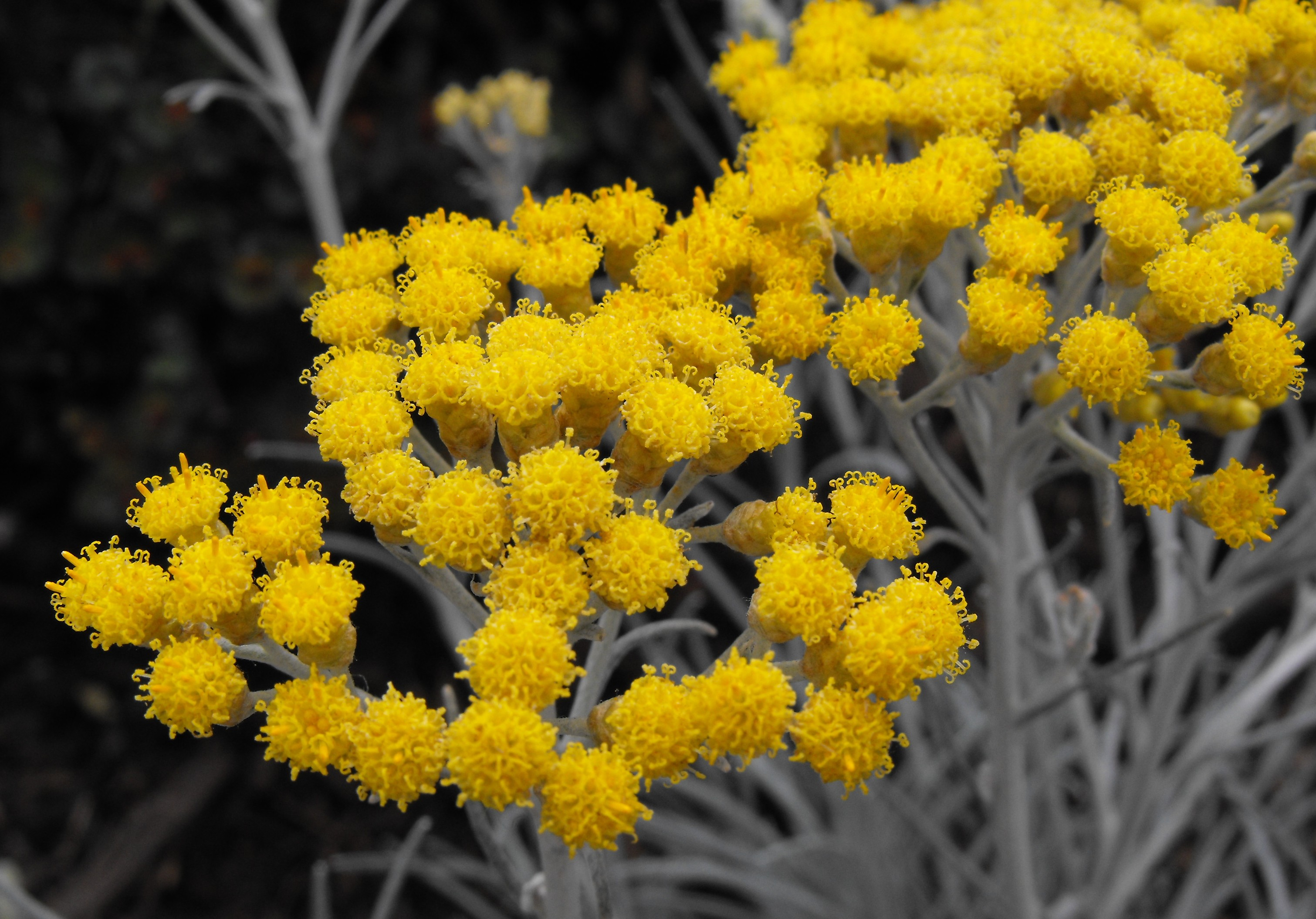 Helichrysum thianschanicum 'Icicles' on display at the San Diego County Fair, California, USA. Identified by exhibitor's sign.